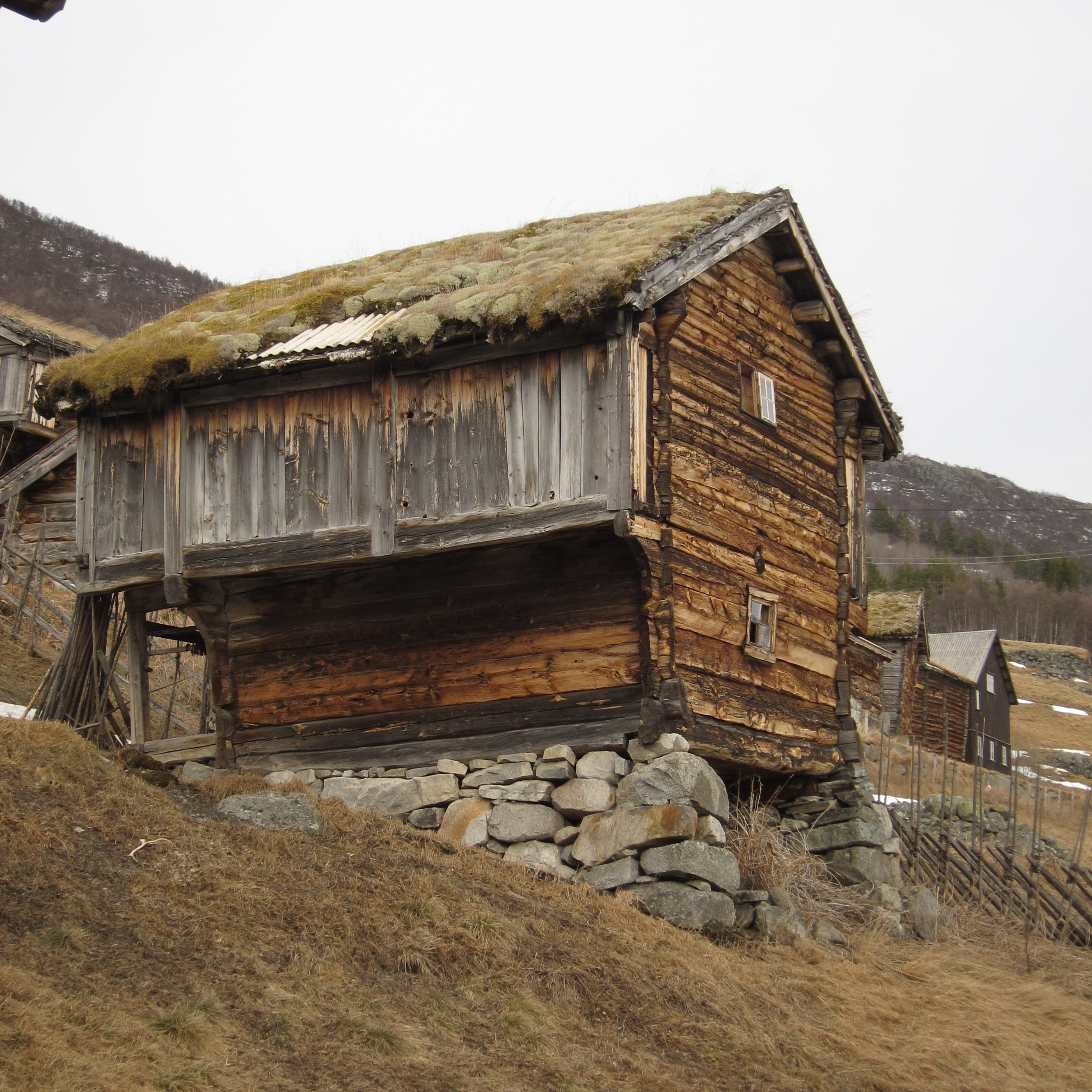 Old log buildings, Sudndalen, Buskerud, road 50